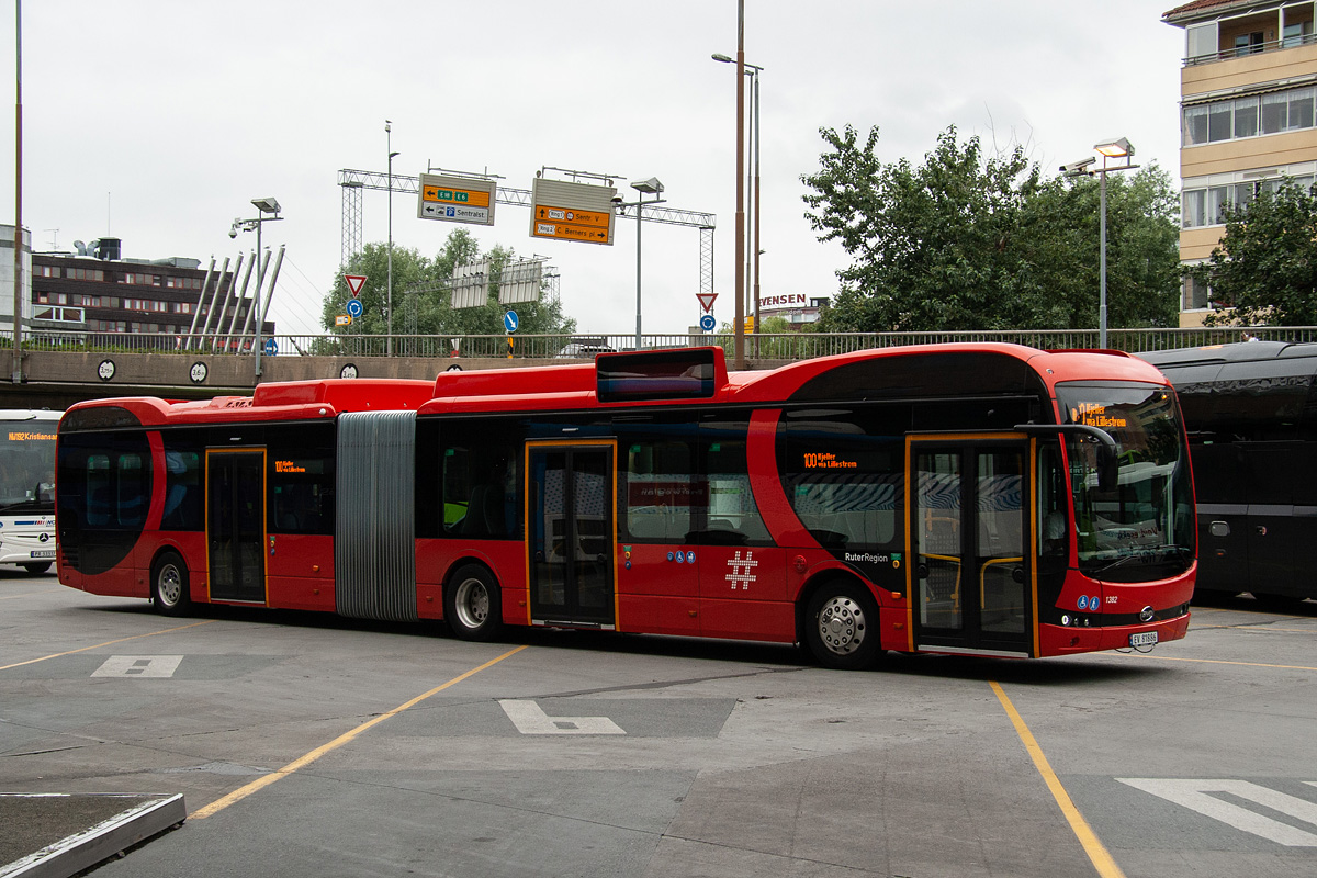 BYD K11U ebus-18 of Nobina Norge at the Oslo Bus Terminal.